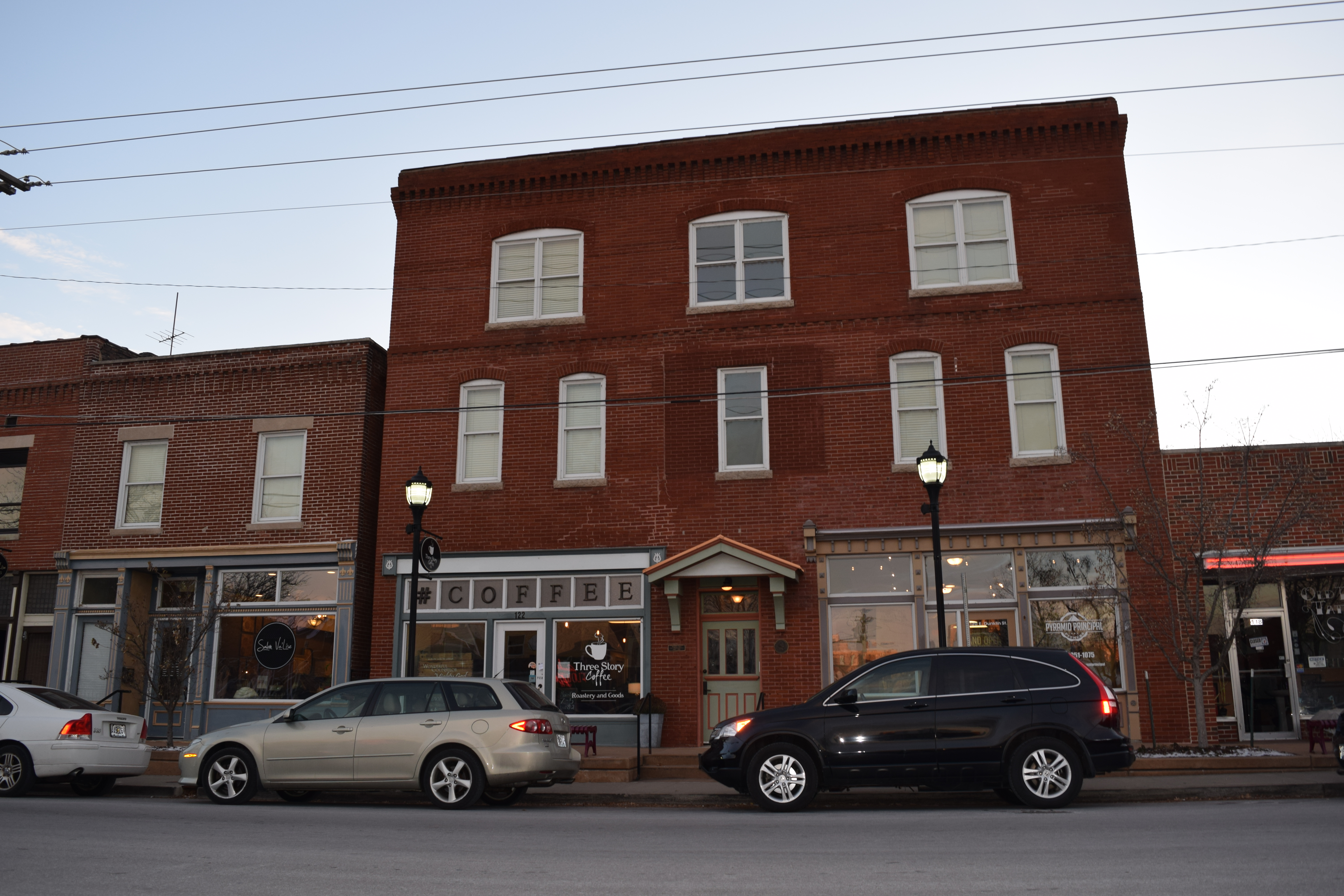 Building at 120-122 East Dunklin Street in the Munichburg Commercial Historic District in Jefferson City, Missouri. The district is listed on the National Register of Historic Places.